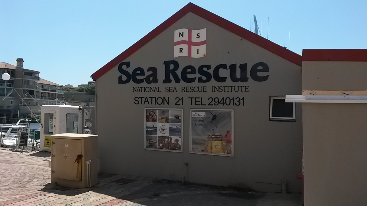 South African National Sea Rescue Institute - Station 21, Port St Francis, Eastern Cape, South Africa